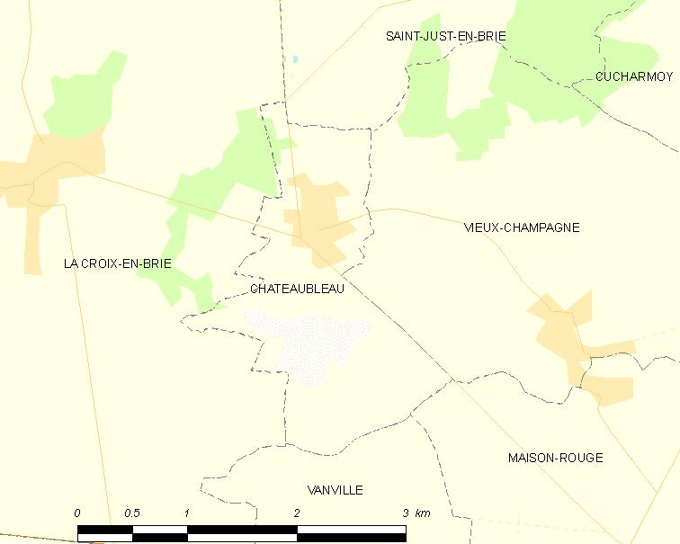 Map of French municipality Châteaubleau